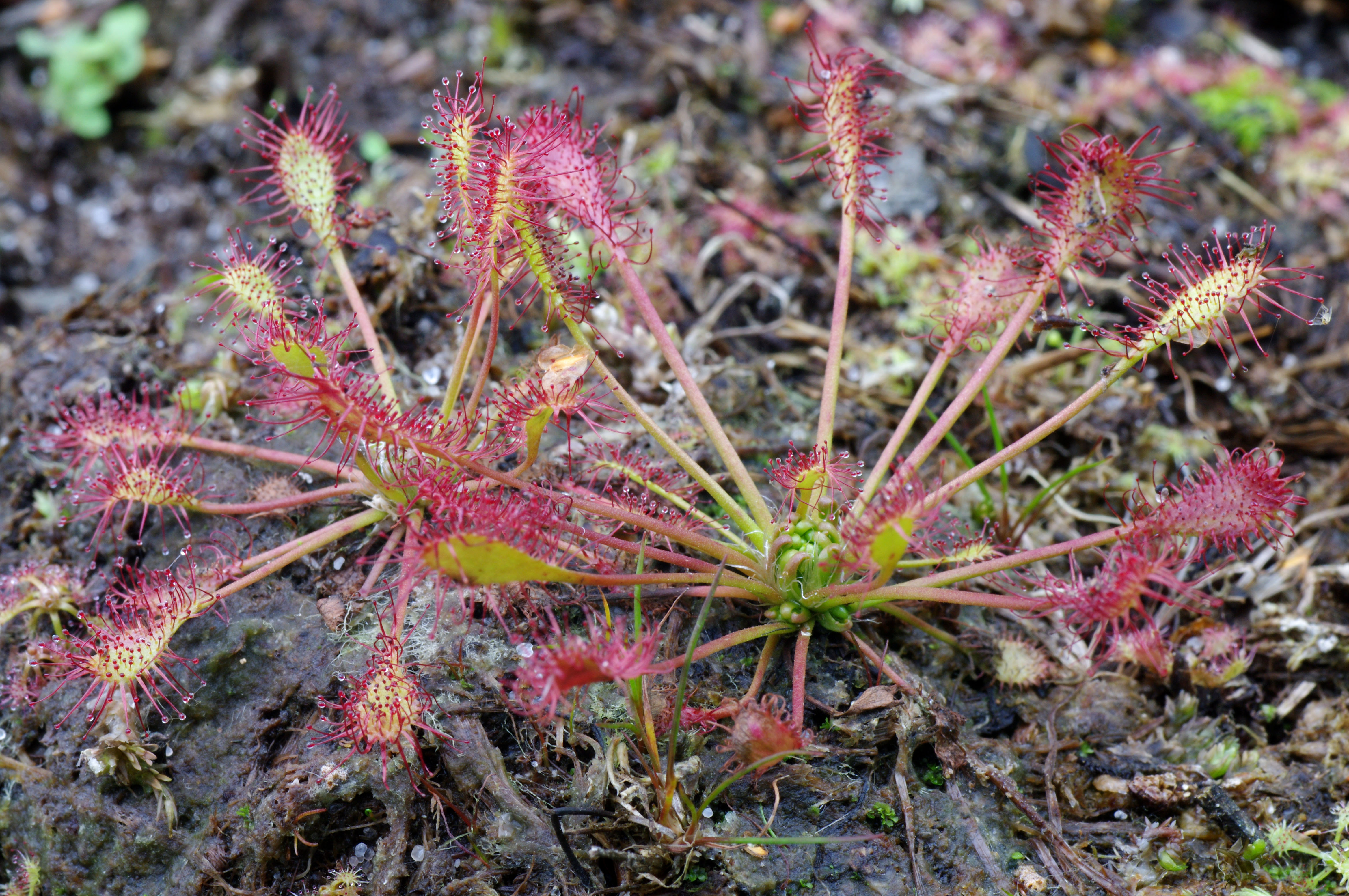 Two plants of the Oblong-leaved Sundew, Drosera intermedia.